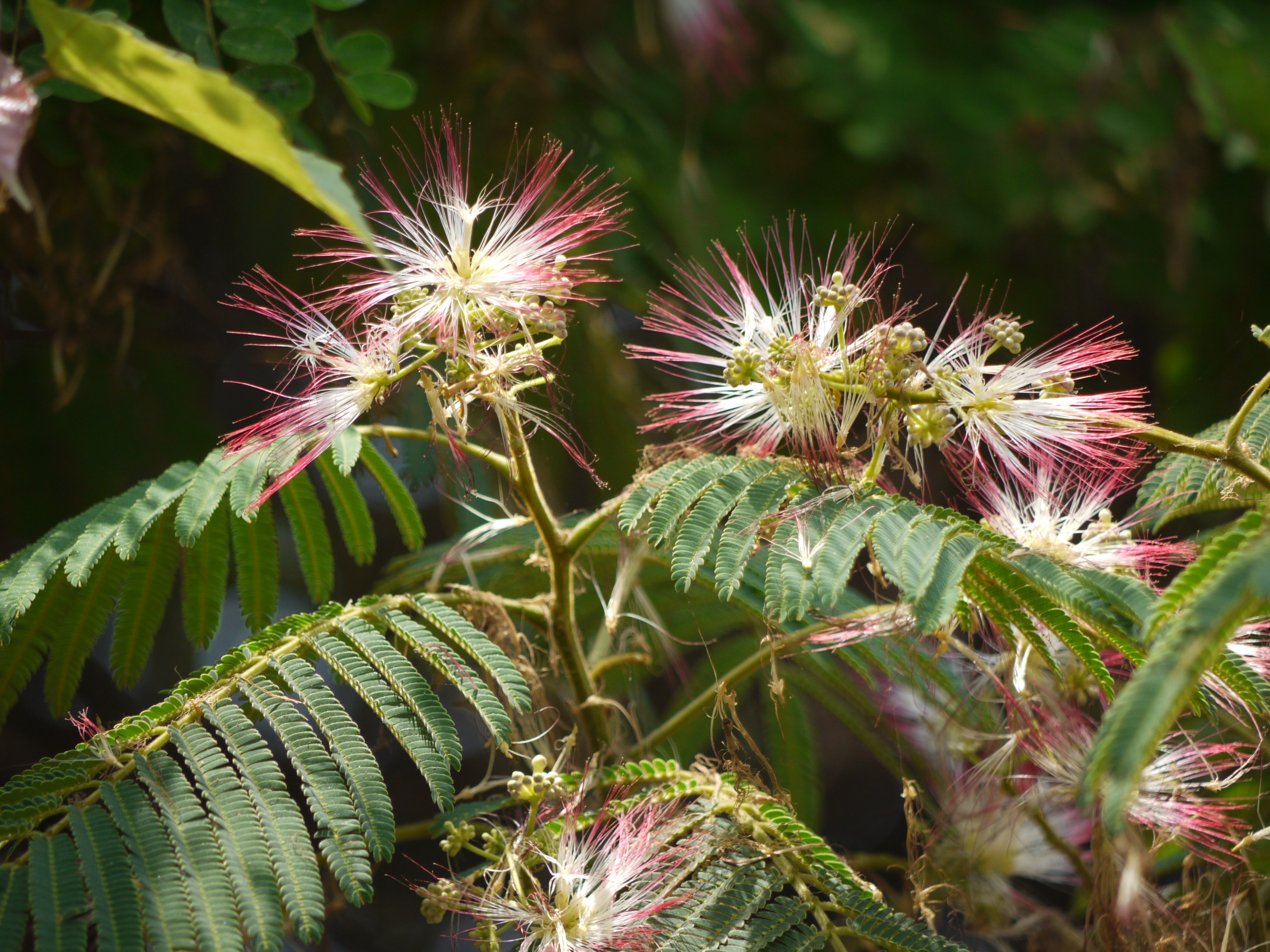 Fabaceae (pea, or legume family) » Albizia chinensis (Osbeck) Merr. al-BIZ-ee-uh -- named for Filipo del Albizzi, Florentine nobleman ... Dave's Botanary chi-NEN-sis -- of or from China ... Dave's Botanary commonly known as: Chinese albizia, silk tree • Assamese: ছ কৰৈ sau koroi • Garo: bolphi • Hindi: काला सिरिस kala siris, ओही ohi • Kannada: ಬೆಟ್ಟ ಬಾಗೆ betta baage • Khasi: dieng phallut • Konkani: उडुल udul • Malayalam: പൊന്തല്‍വാക peantal-vaka, പൊട്ടവാക peattavaka • Manipuri: jairi • Marathi: उडळ udal • Mizo: vang • Nepali: कालो शिरिश kalo shirish • Oriya: ଘୋଡ଼ାଲାଞ୍ଜି ghoralanji • Punjabi: ਦੁਰਗਾਰੀ durgari, ਓਹੀ ohi, ਕਾਲੀ ਸੀਰੀ kali siri, ਸਿਰੀਂਹ sirinh, ਸਿਰਿਸ siris • Tamil: சிலைவாகை cilai-vakai, பீலிவாகை pili-vakai • Telugu: చిందుగ cinduga, కొండచిందుగ kondacinduga Native to: s & s-e Asia References: Flowers of India • World Agroforestry Centre • PIER • eFlora • ENVIS - FRLHT • DDSA